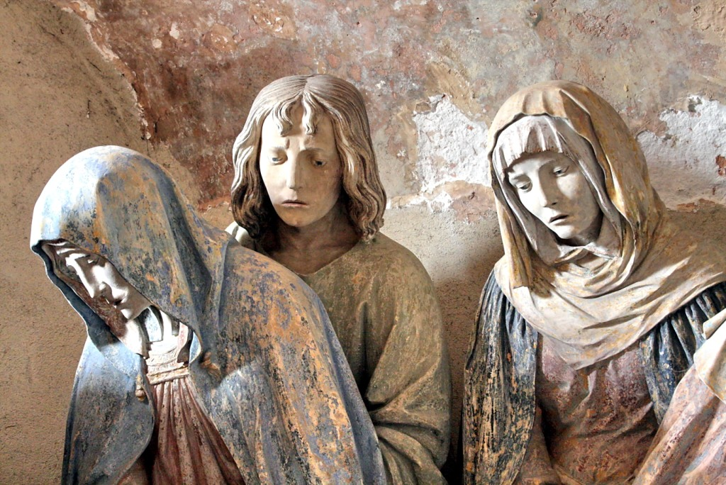 Study of Chaource Mise au Tombeau